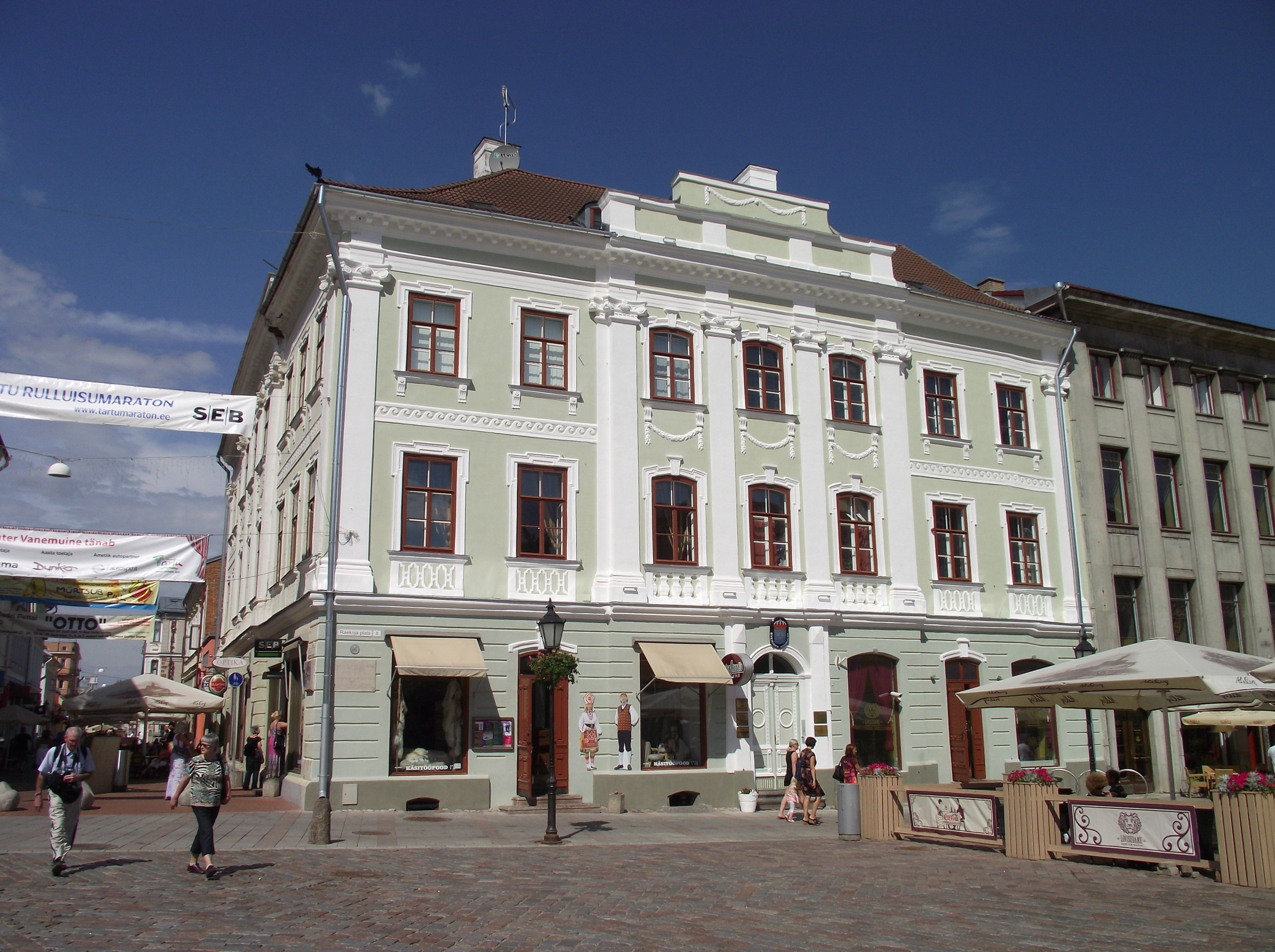 Raekoja plats 8, Tartu, Estonia, with Swedish Honory Consulate